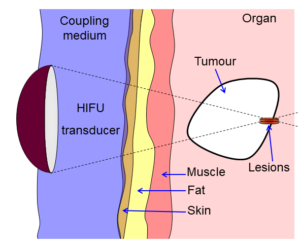 A schematic diagram showing the basic principle of extra-corporeal HIFU for treatment of a soft tissue tumour in the liver. The focal region can be placed at depth within a tumour, where a series of adjacent ‘lesions’ known as a lesion array can be formed as shown.